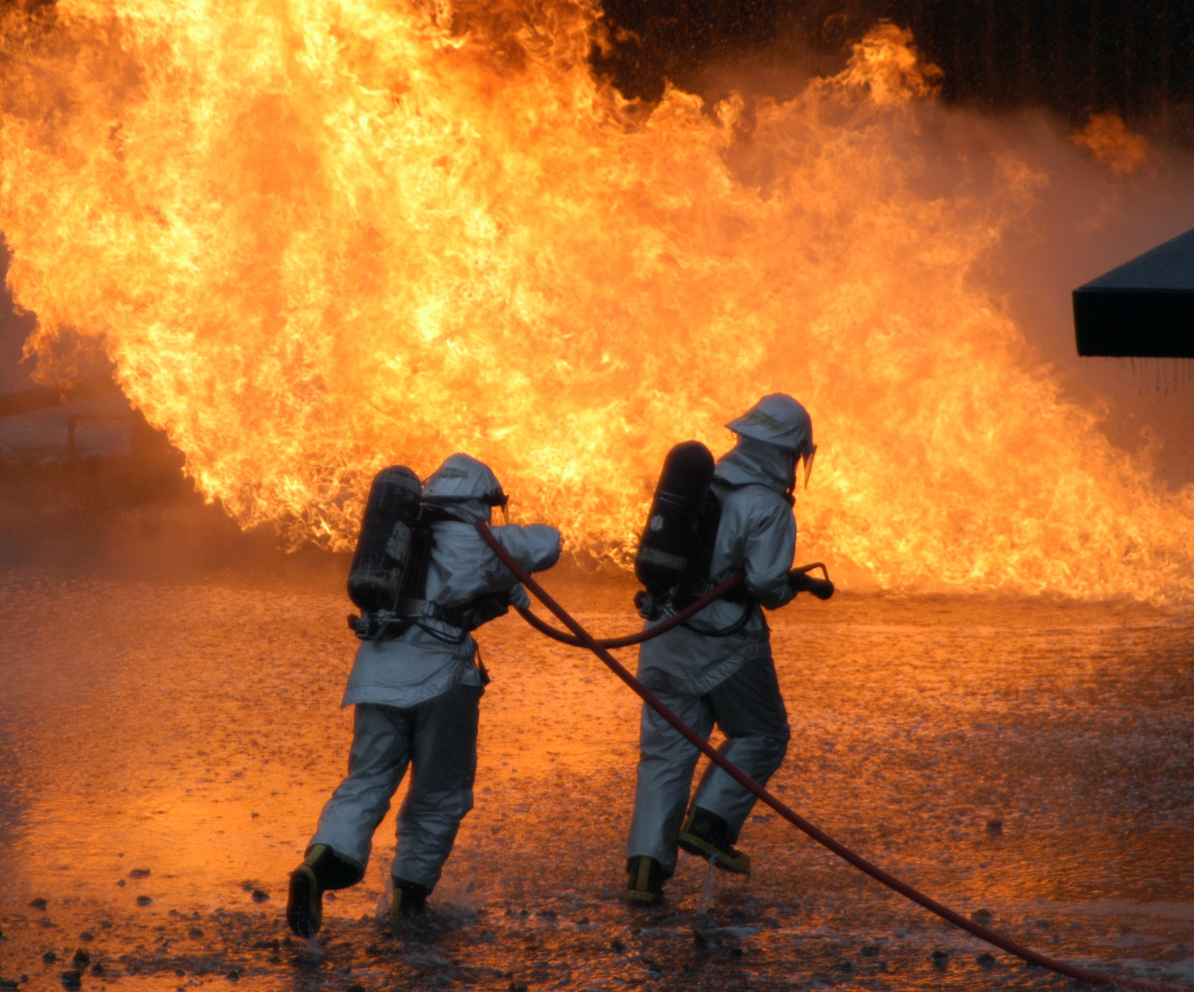 Goodfellow Air Force Base, Texas (Oct. 28, 2004) – Two Aviation Boatswain’s Mate students make an assault on a large-scale mock aircraft fire on board Goodfellow Air Force Base, Texas. The students are performing their final evaluation in the Fire Protection Apprentice Course at the Louis F. Garland Department of Defense (DoD) Fire Academy. U.S. Navy photo by Cryptologic Technician 1st Class Patrick D. Wormsley (RELEASED)